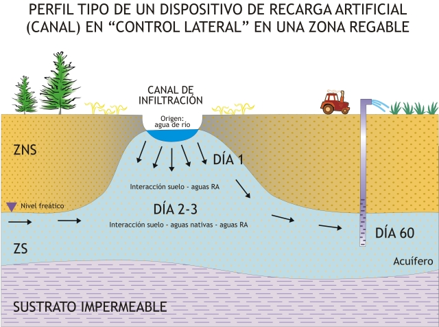 Artificial recharge in a channel device